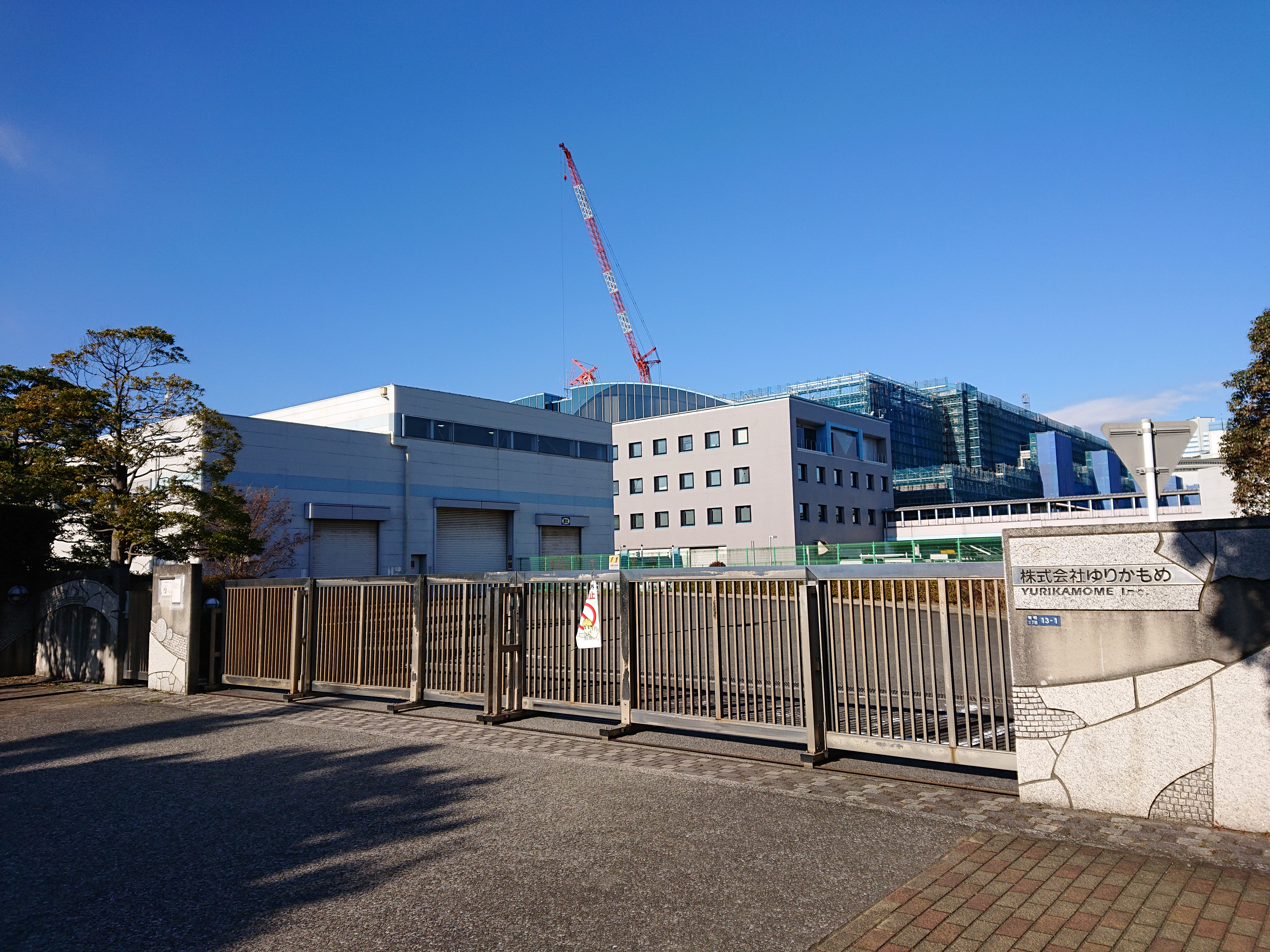 Yurikamome headquarters, at 3-13-1 Ariake, Koto, Tokyo, Japan